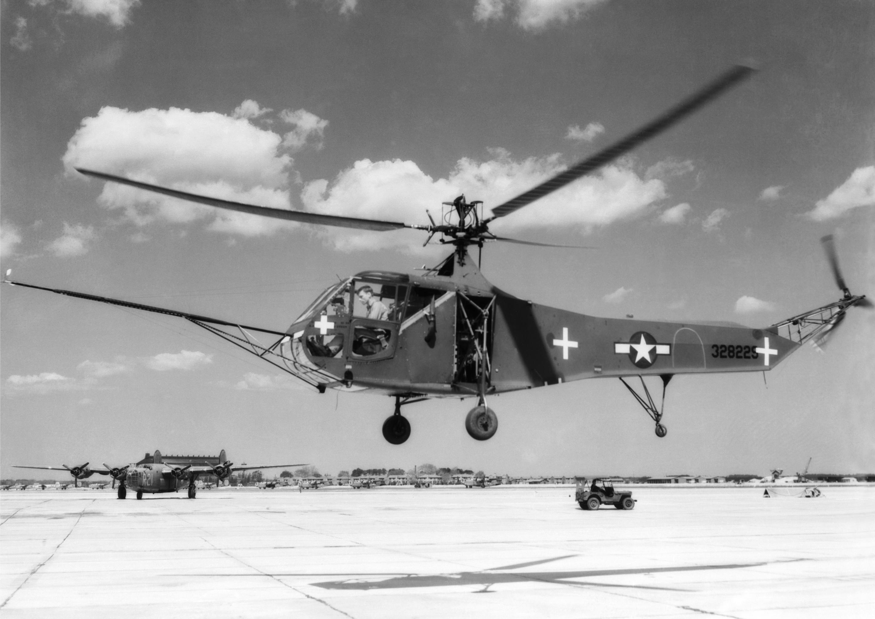 A Sikorsky YR-4B (c/n 29, USAAF s/n 43-28229) at the NACA Langley Memorial Aeronautical Laboratory at Hampton, Virginia (USA). This aircraft was initially ordered in 1943 by the USAAF, and still carries the original serial number. It had been transferred to the U.S. Navy and officially received the designation HNS-1 (BuNo 39034). It was test flown at Langley in March 1945. Jack Reeder, the NACA's first helicopter pilot, is at the controls. This "Hoverfly" was also used for pilot training in rotary winged flight.